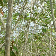 Vitex pinnata trees in Samboja Lestari